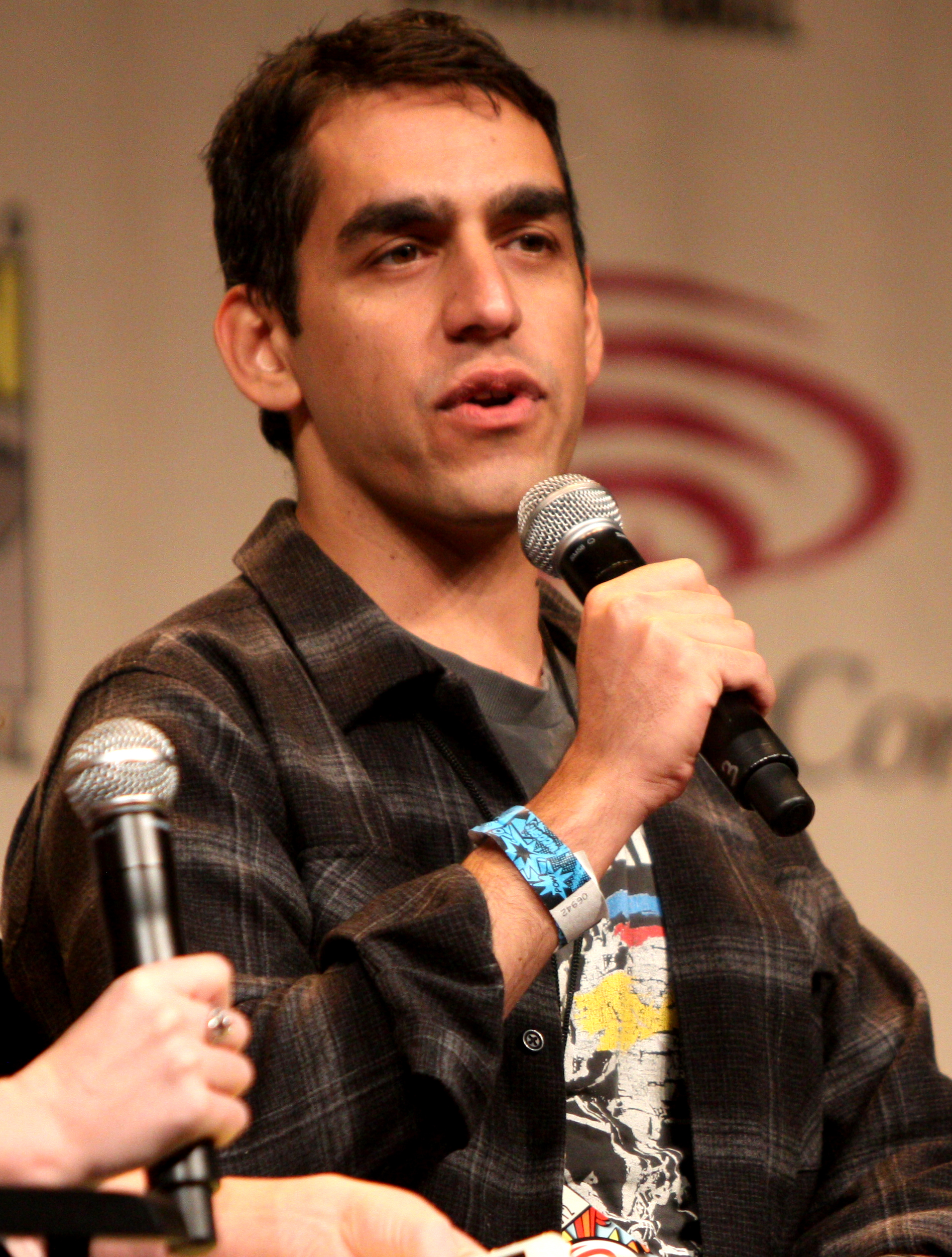 Zal Batmanglij speaking at Wondercon 2012 in Anaheim, California on March 16, 2012.